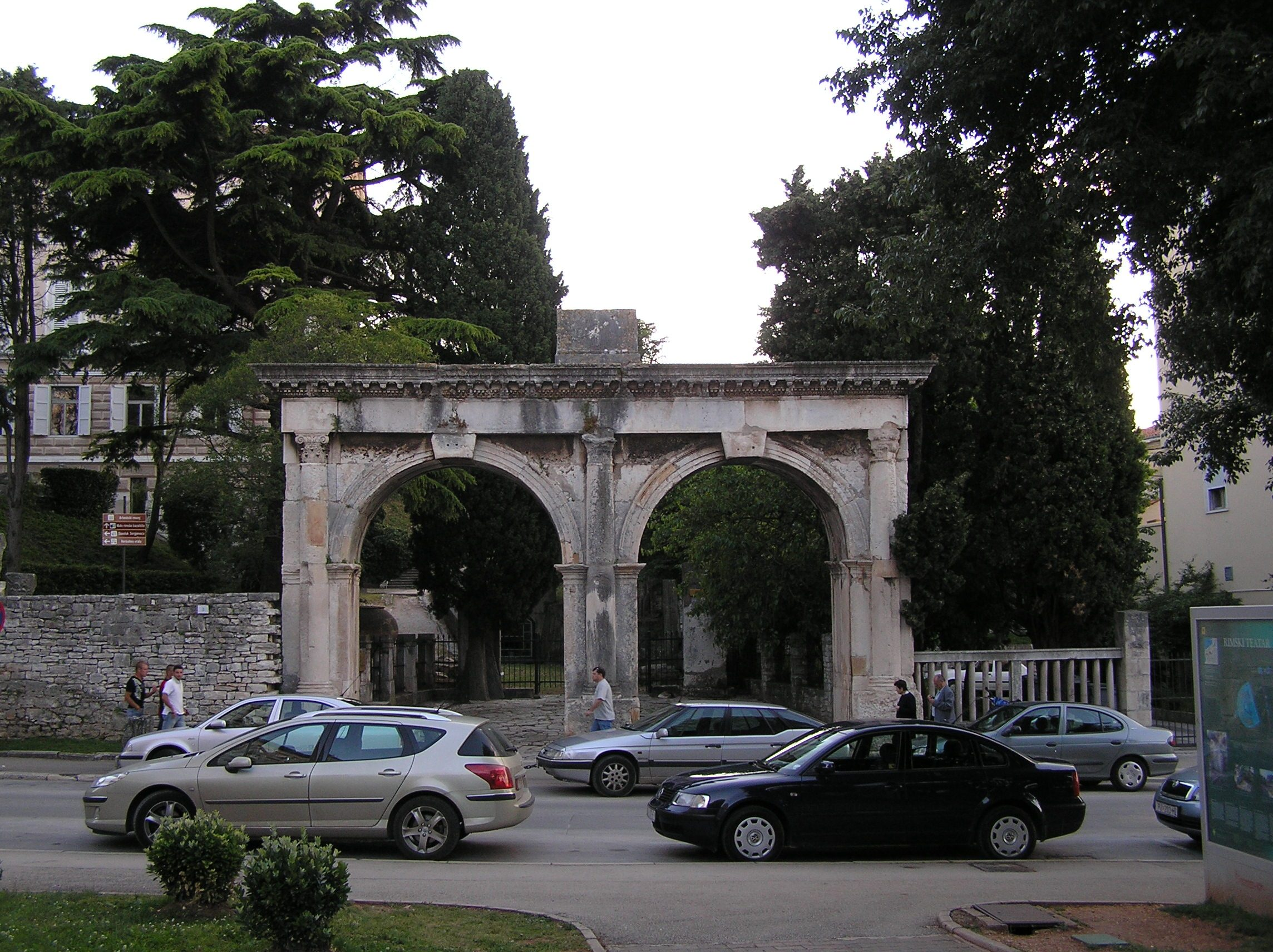 Roman Double gates in Pula, Croatia. self-made